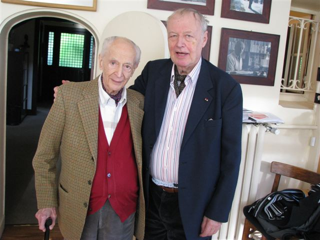 Henryk Giedroyc (b. January 12, 1922 - d. March 21, 2010) and Maciej Morawski (b. September 20, 1929), Polish journalist and publicist.